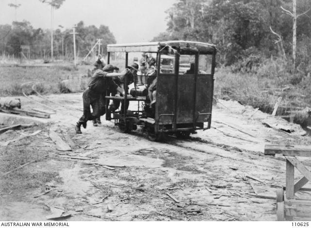 SERIA, BORNEO. 1 JULY 1945. MEMBERS OF C COMPANY, 2/17 INFANTRY BATTALION, TRYING TO START THE MOTOR OF A NARROW GAUGE RAILWAY ENGINE WHICH THEY FOUND AFTER TAKING OVER THE AREA.